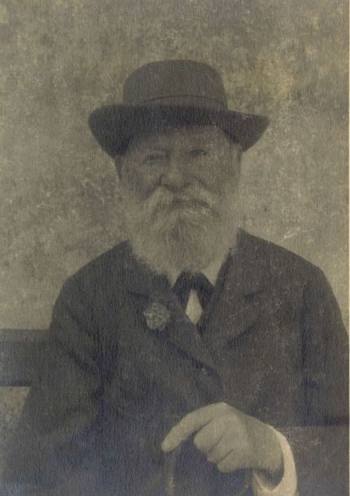 Janez Trdina (1830-1905), Slovenian writer.